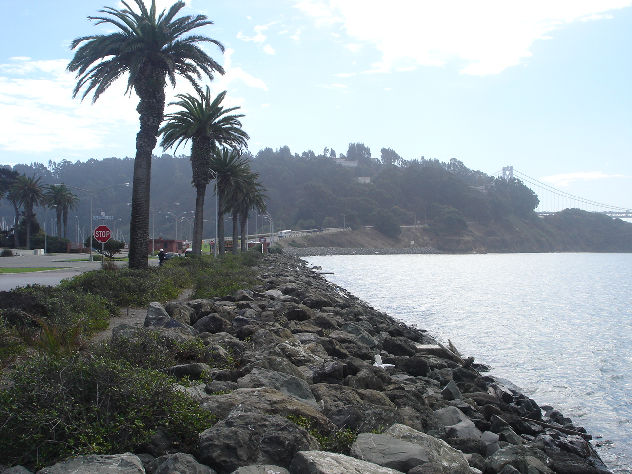 Looking south from Treasure Island's western shore; the hill further down the road is Yerba Buena Island. Visible in the background is the Bay Bridge. The low-lying brown building is the former gatehouse to the Navy Base.